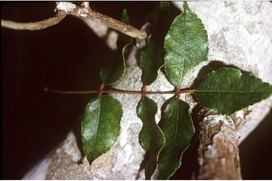 Zanthoxylum clava-herculis